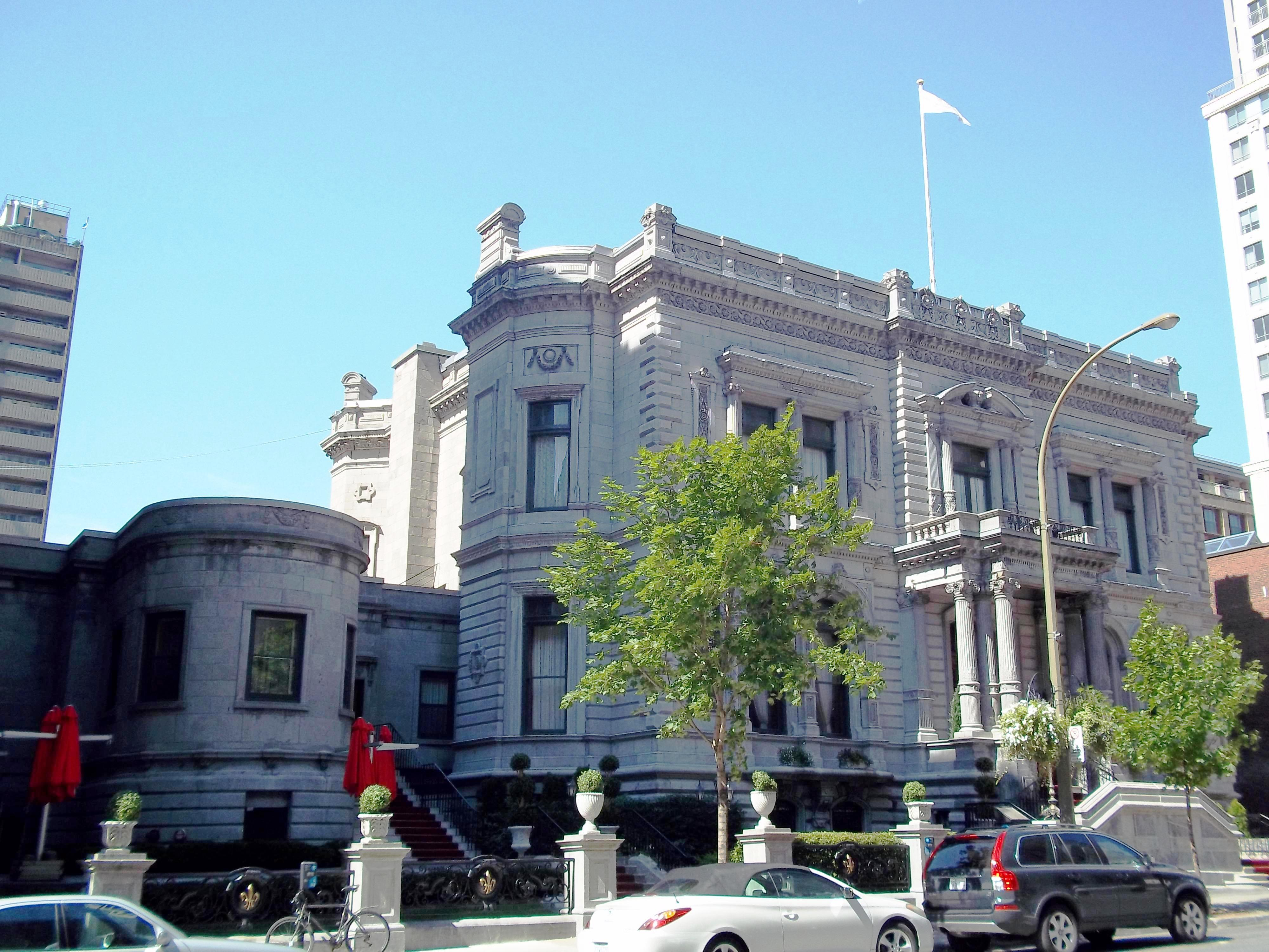 George Stephen House (1883), also known as the Mount Stephen Club Building, 1430–1440 Drummond Street, Montreal, Quebec, Canada.